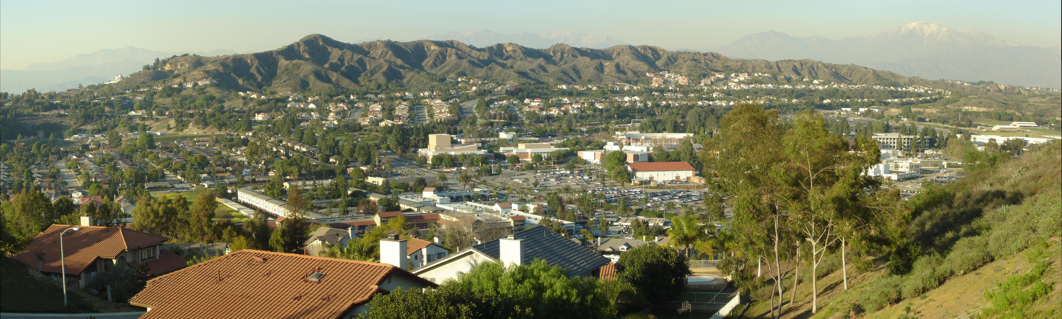 Panoramic view of Mount San Antonio College located in Walnut, California.